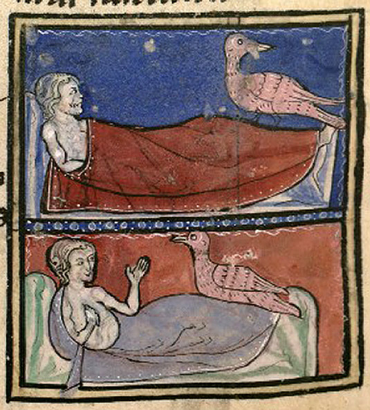 Caladrius. In the top panel, the caladrius looks away from the sick man, indicating he will die. In the bottom panel, the caldrius looks toward the much happier man, who will recover. Bibliothèque Nationale de France, lat. 14429, Folio 106v